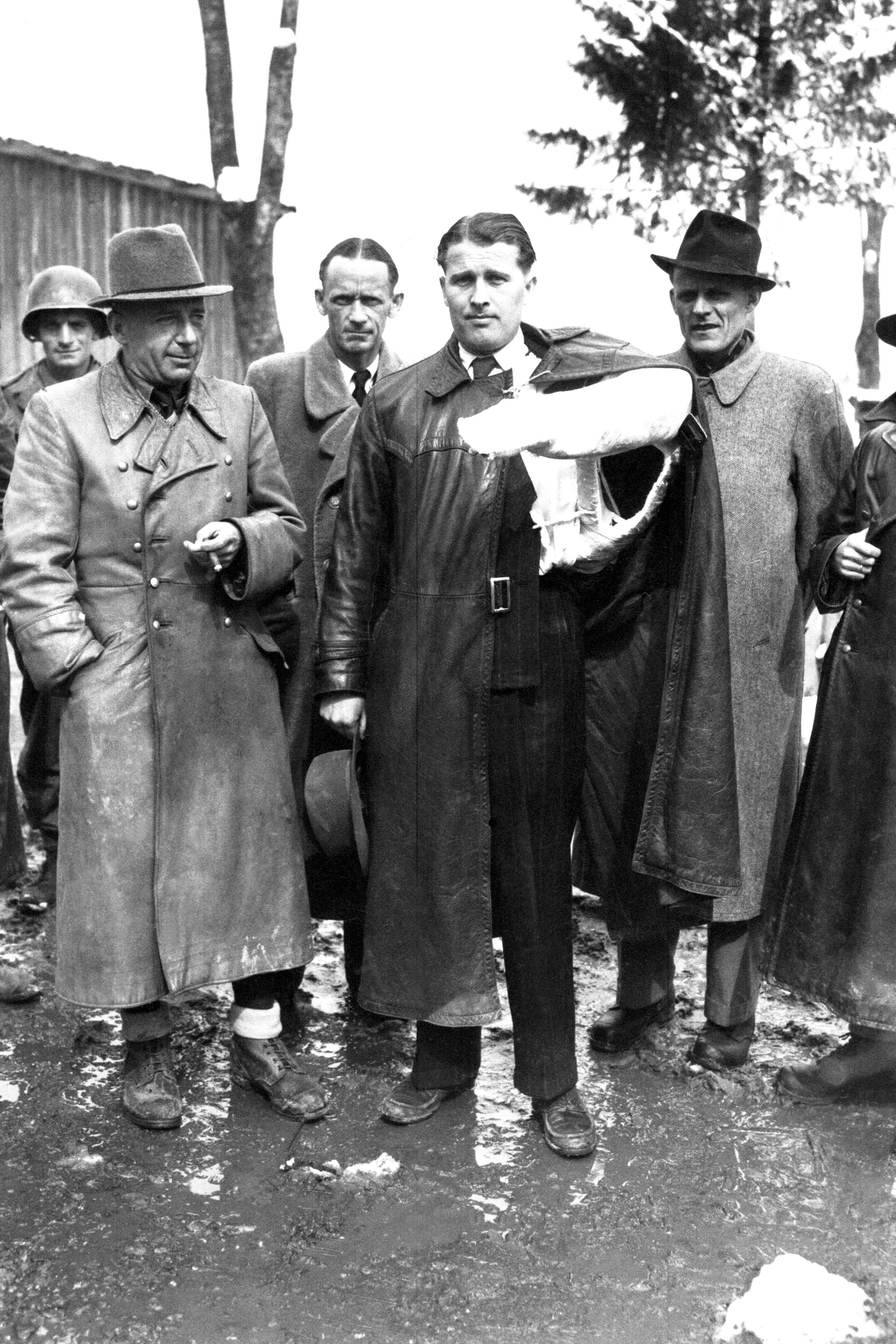 U.S. soldier, Walter Dornberger, Herbert Axter, Wernher von Braun, Hans Lindenberg, and Bernhard Tessmann (partially cropped) after the scientists surrendered to the Allies in 1945